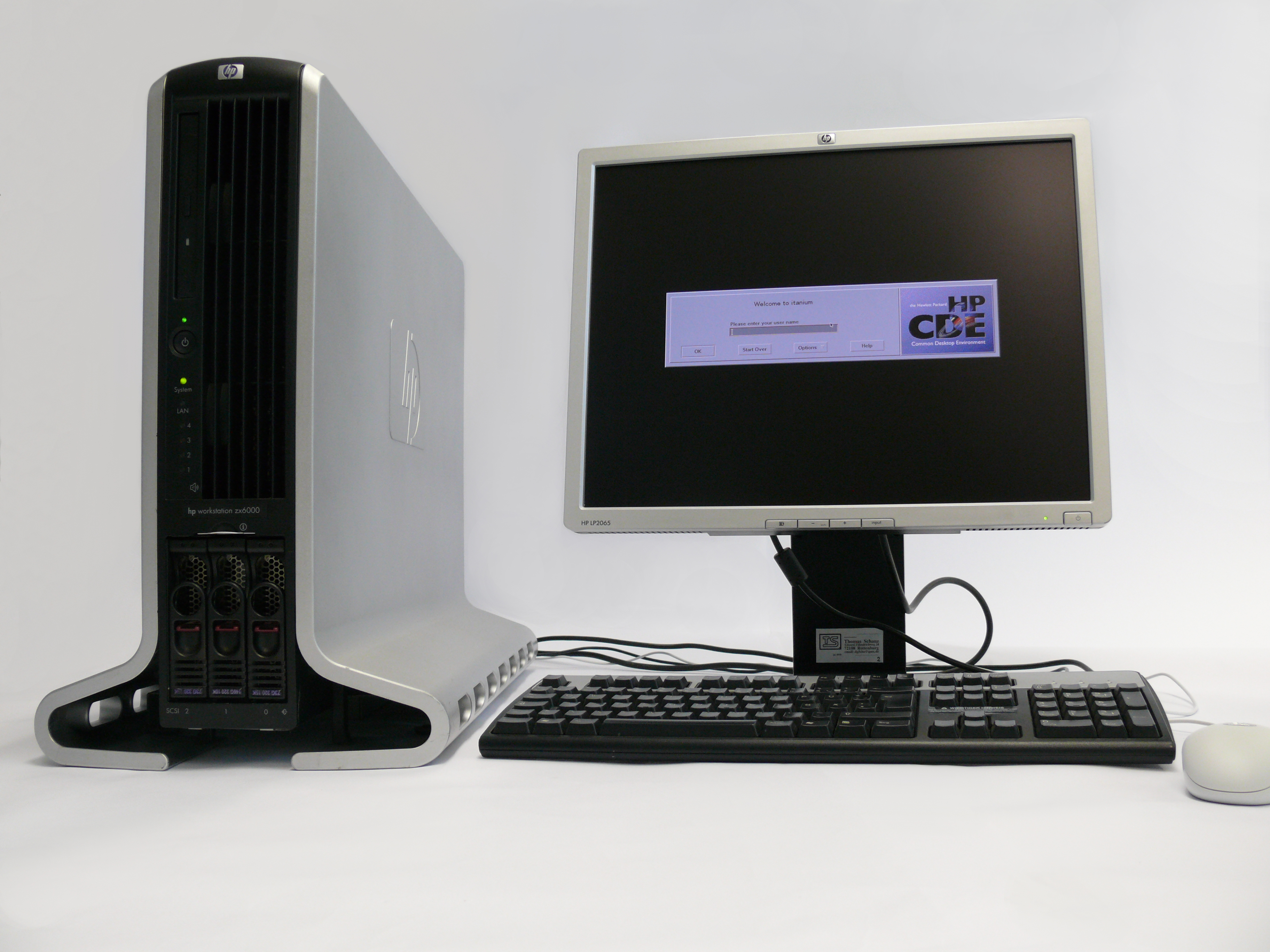 Hewlett-Packard HP9000 UNIX Workstation, Model ZX6000 Itanium2 Workstation, 2x Intel Itanium2 64 Bit EPIC-CPUs - Madison 1,3 GHz - 3 MByte L3 Cache, max. 24 GByte RAM, 3x PCI-X, 1x AGP 4x, zx1 chipset, two channel Ultra320 SCSI, IDE, USB-Keyboard and Mouse, Gigabit LAN, 3x SCA Disks, HP LP2065 20" Color LCD, HP-UX 11.23, CDE